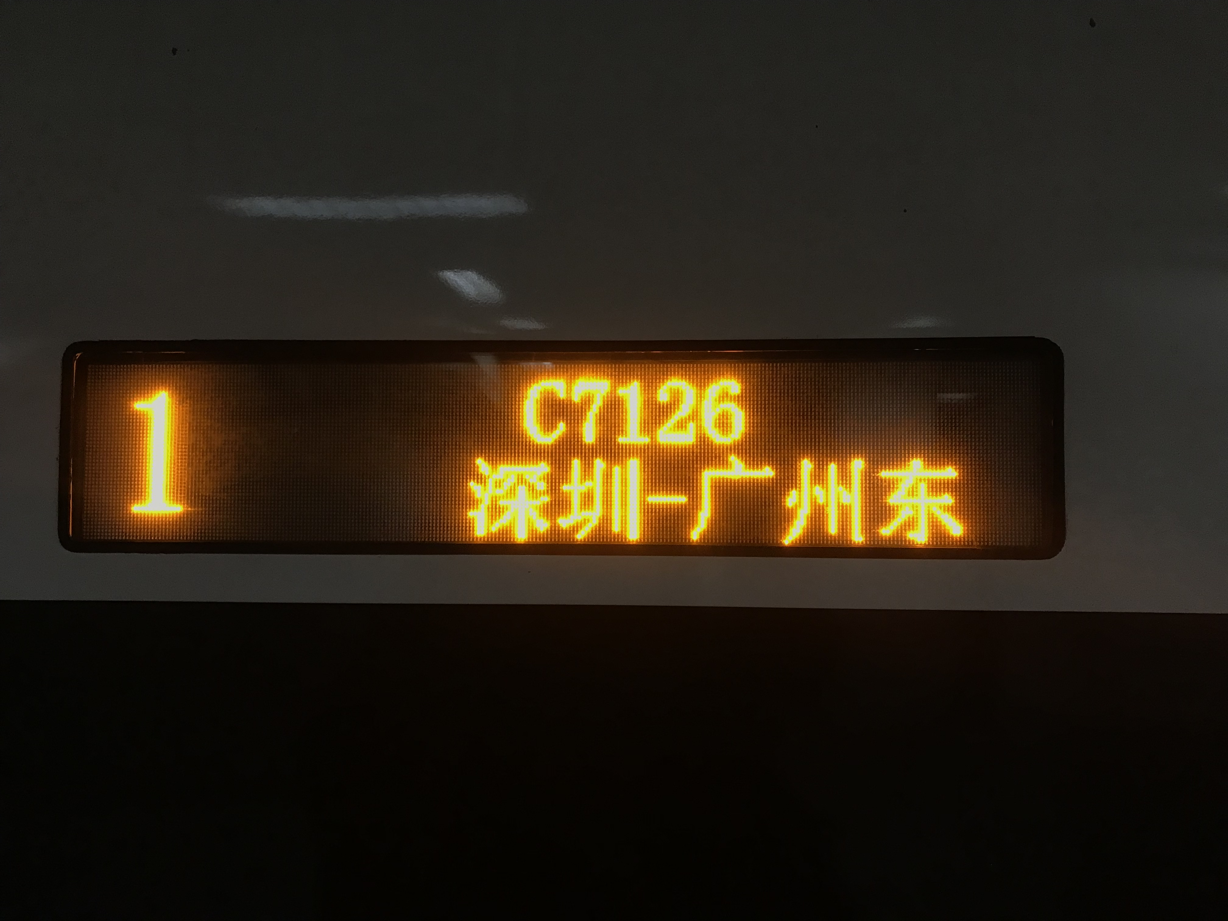 DJ7787 to C7126. Taken on the Platform of Shenzhen Station.